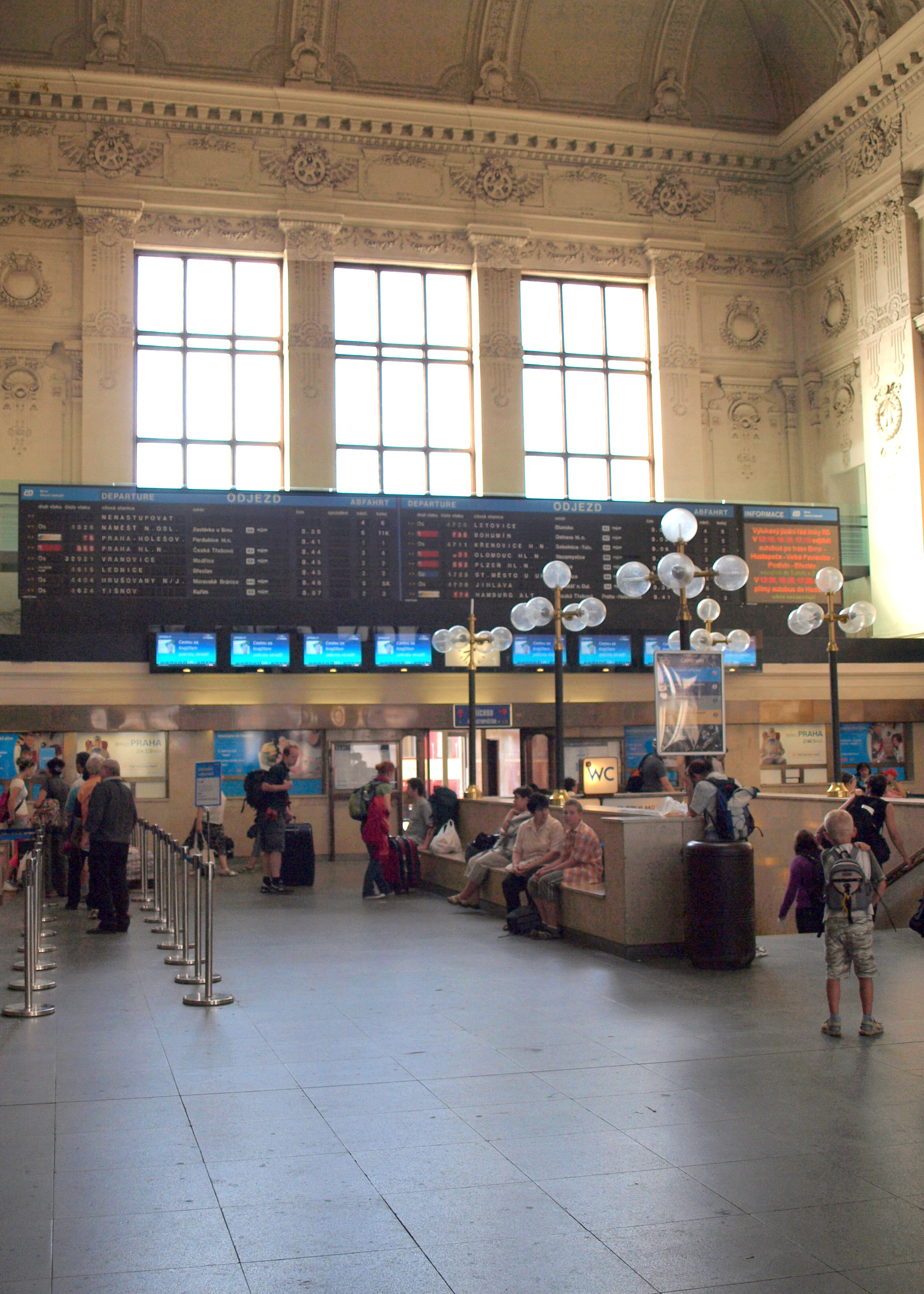 Brno main station, hall